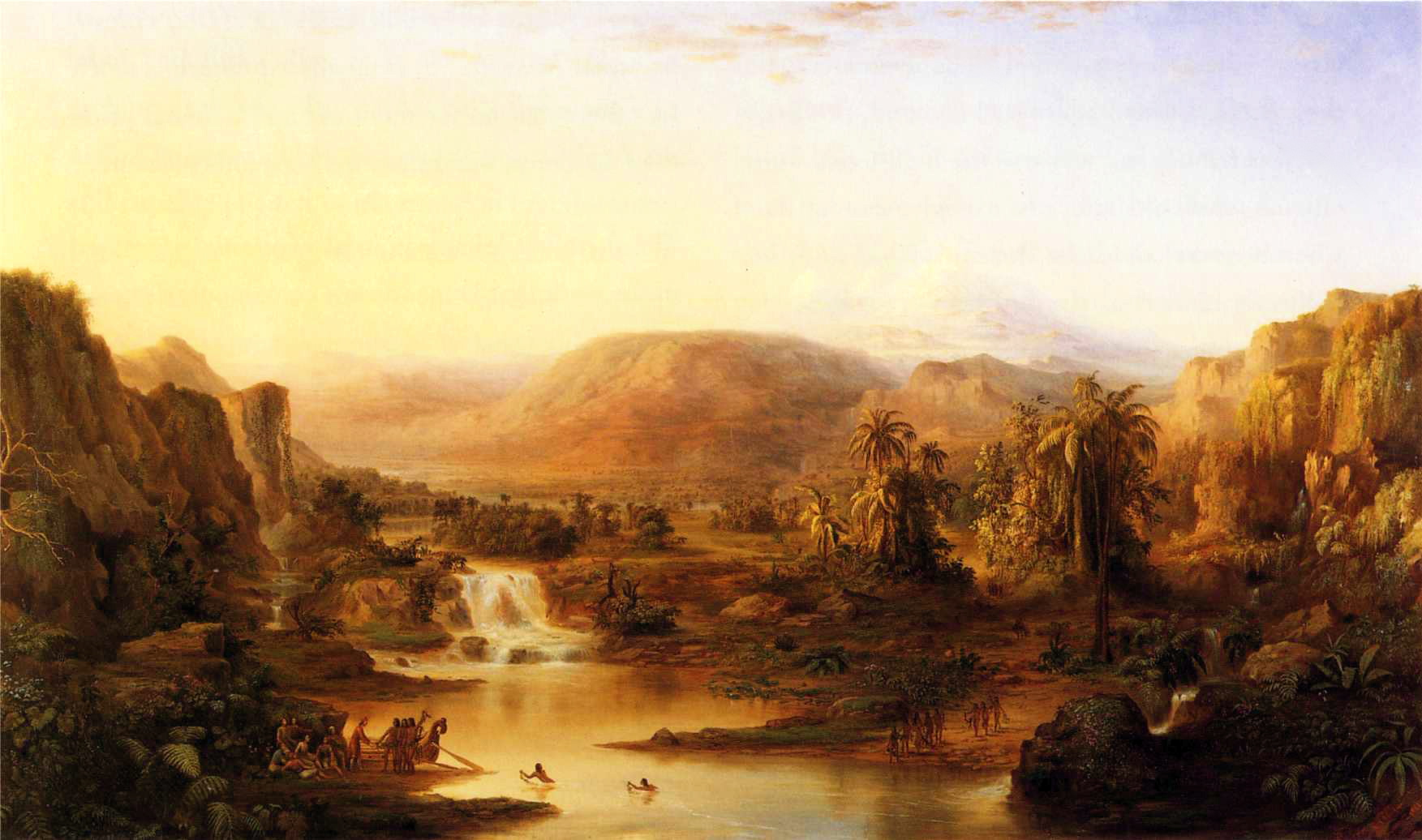 Dimensions and material of painting: Oil on canvas, 52-3/4 x 88-5/8 in